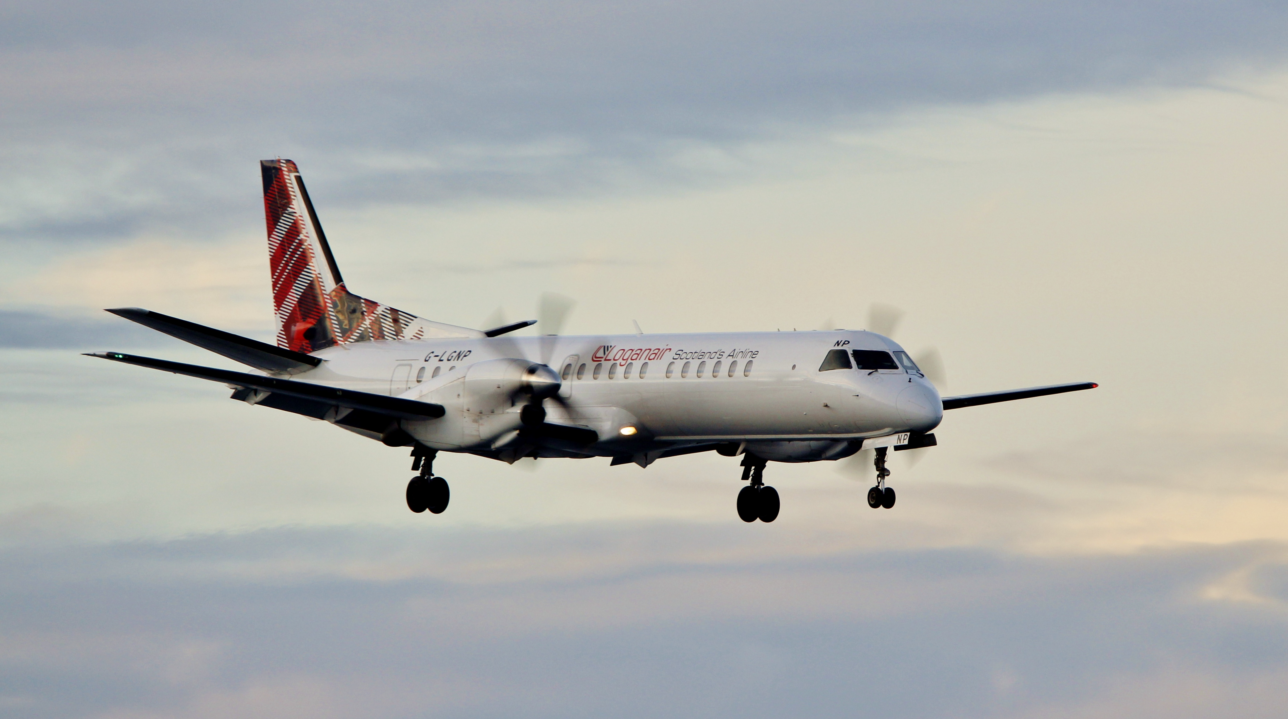 Inbound to Sumburgh